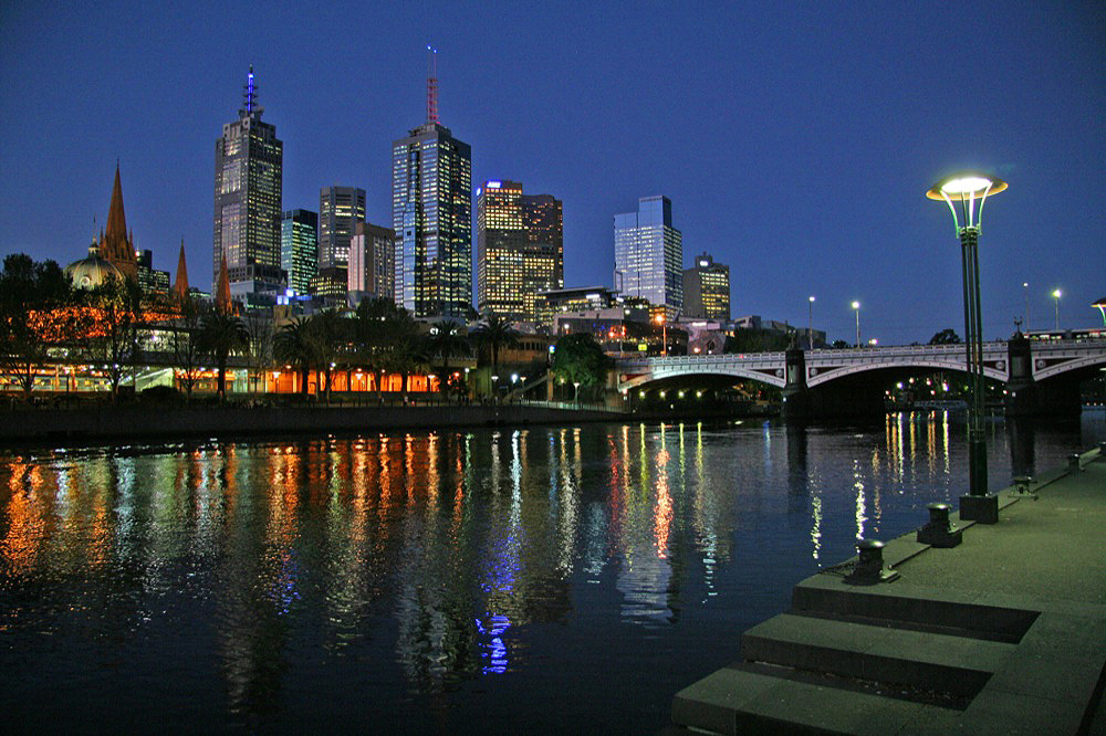 Across the river Yarra from Southbank.